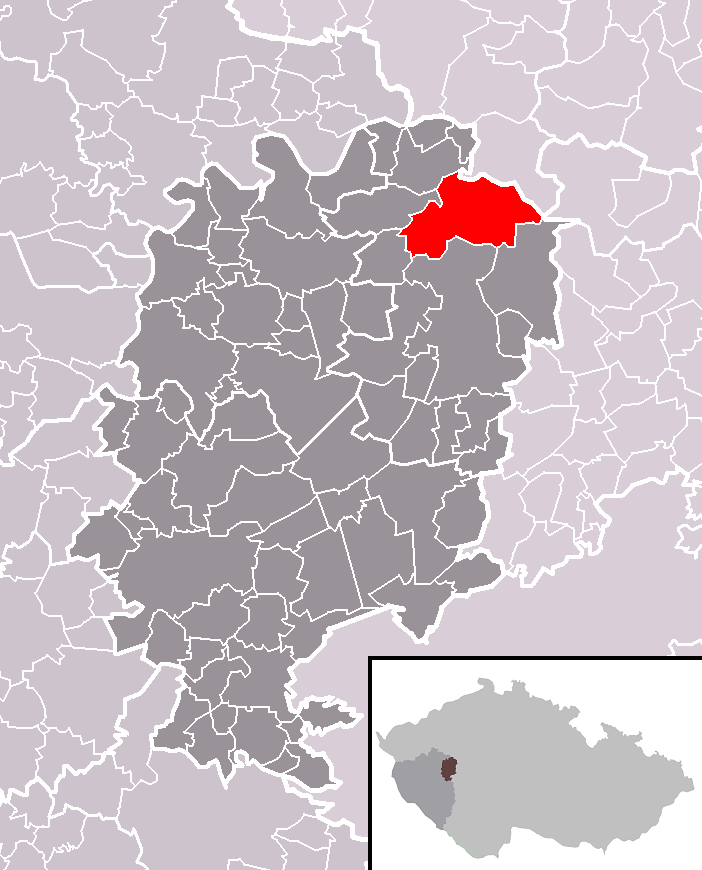 Location of Ostrovec-Lhotka municipality within Rokycany District and within identical administrative area of Rokycany as a Municipality with Extended Competence.